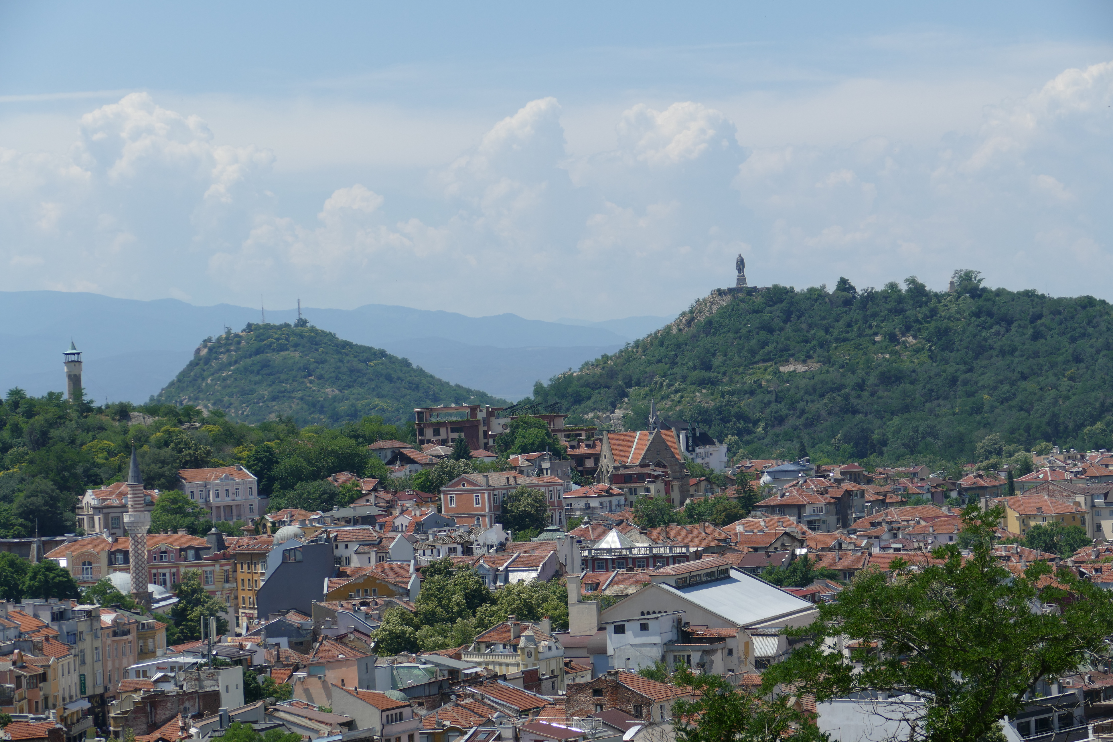 View over Plovdiv from Nebet hill